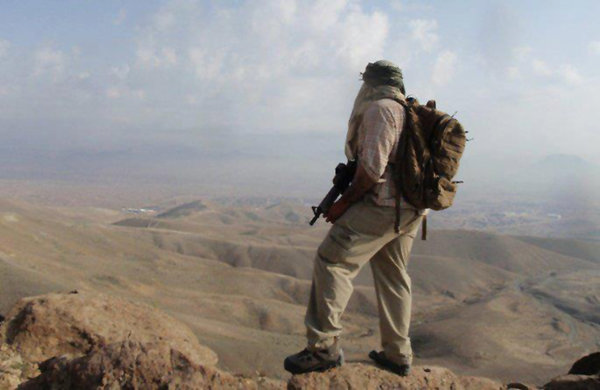 Private Military Contractor, Gunter S., Badakhshan Province, Afghanistan, 2006